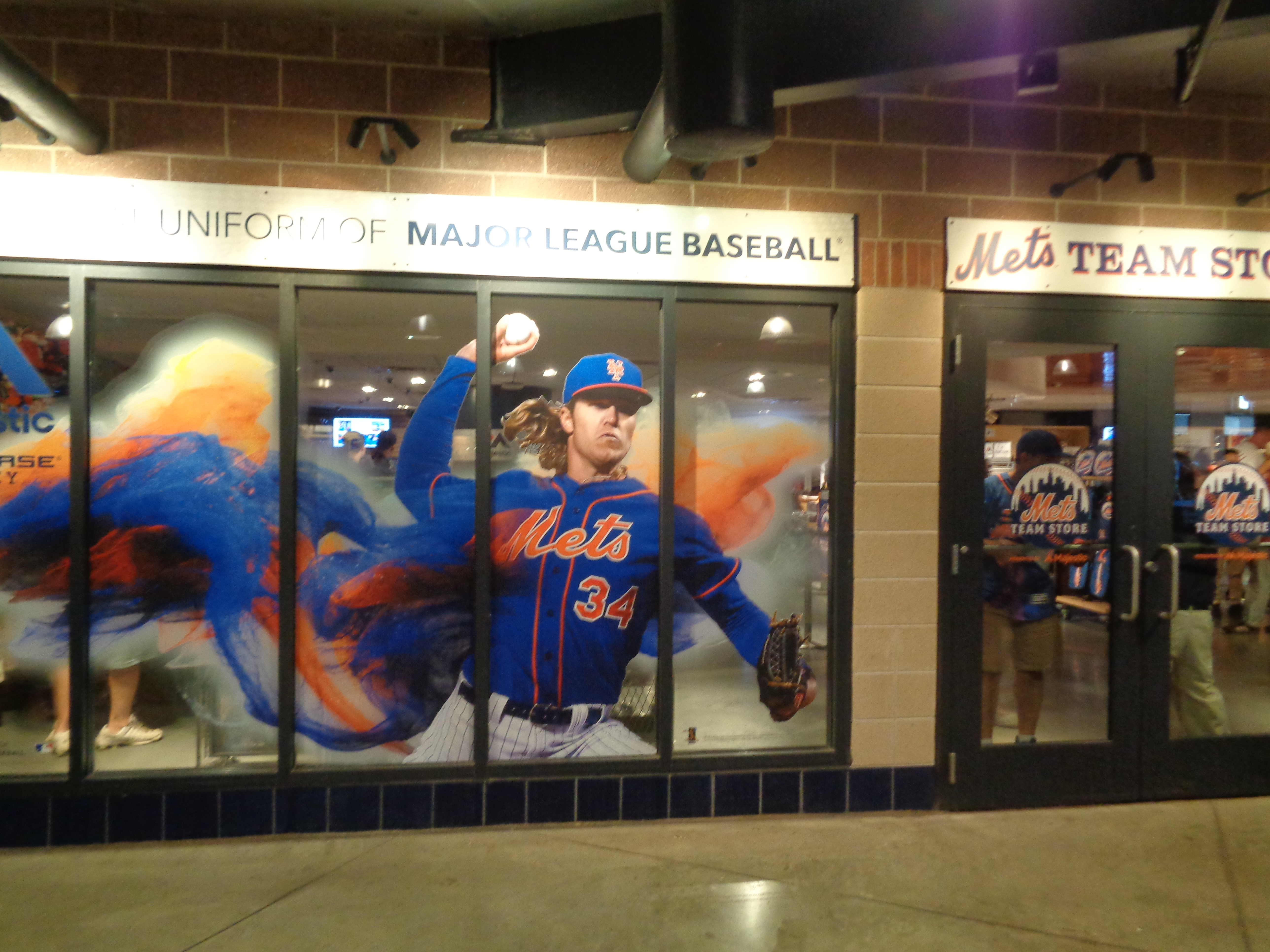 The New York Mets team store from inside Citi Field, with pitcher Noah Syndergaard pictured on the windows, prior to the New York Mets vs. Washington Nationals game.